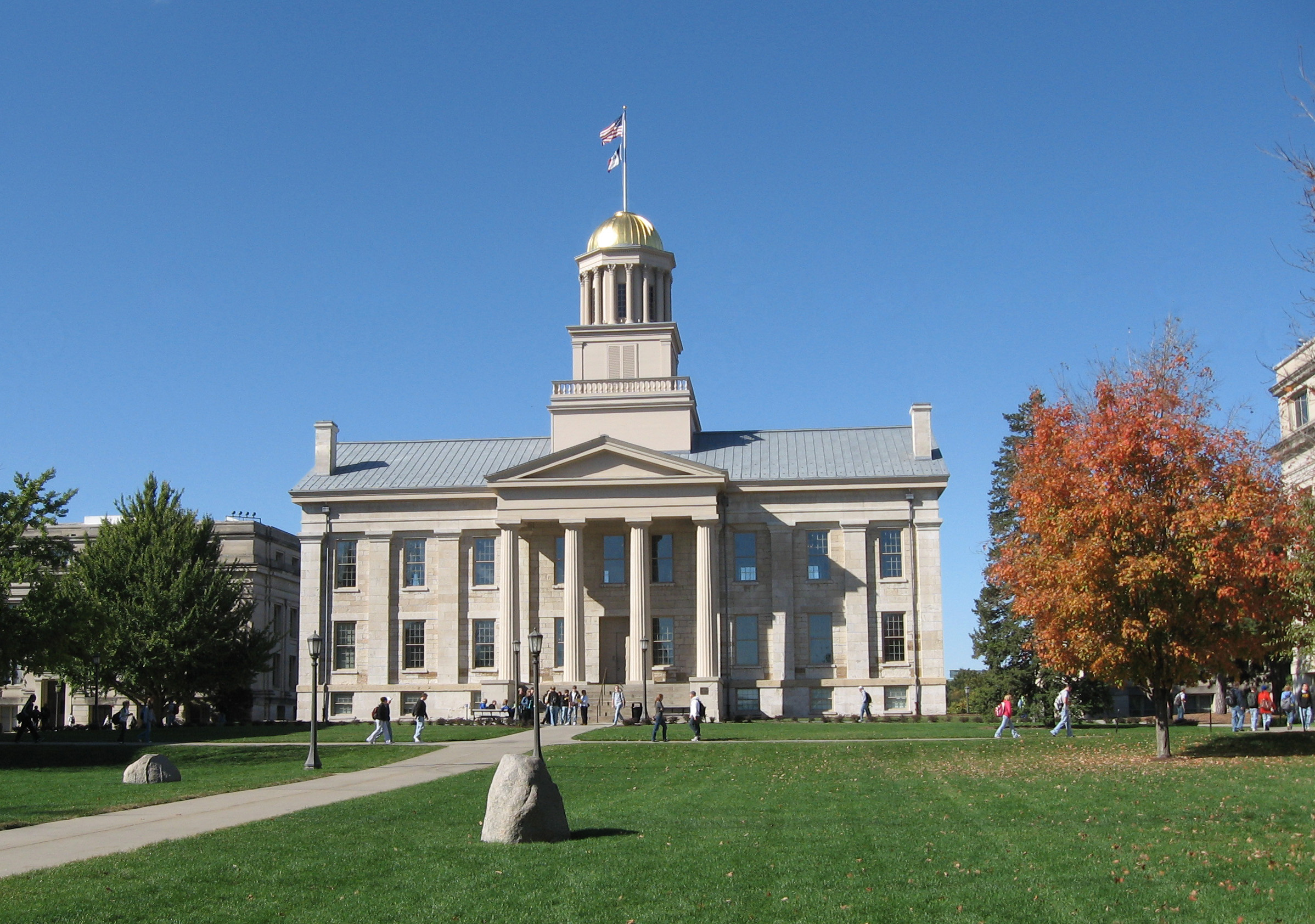 Old Capitol, Iowa City, Iowa.